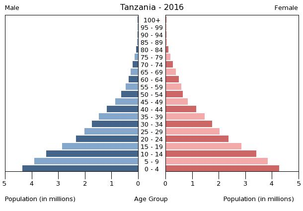 The population pyramid of Tanzania illustrates the age and sex structure of population and may provide insights about political and social stability, as well as economic development. The population is distributed along the horizontal axis, with males shown on the left and females on the right. The male and female populations are broken down into 5-year age groups represented as horizontal bars along the vertical axis, with the youngest age groups at the bottom and the oldest at the top. The shape of the population pyramid gradually evolves over time based on fertility, mortality, and international migration trends.